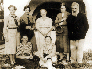 Photo fo Constantin Brancusi, Arethia Tatarescu and the ladies of the Womens Ligue of Gorj County. 1937